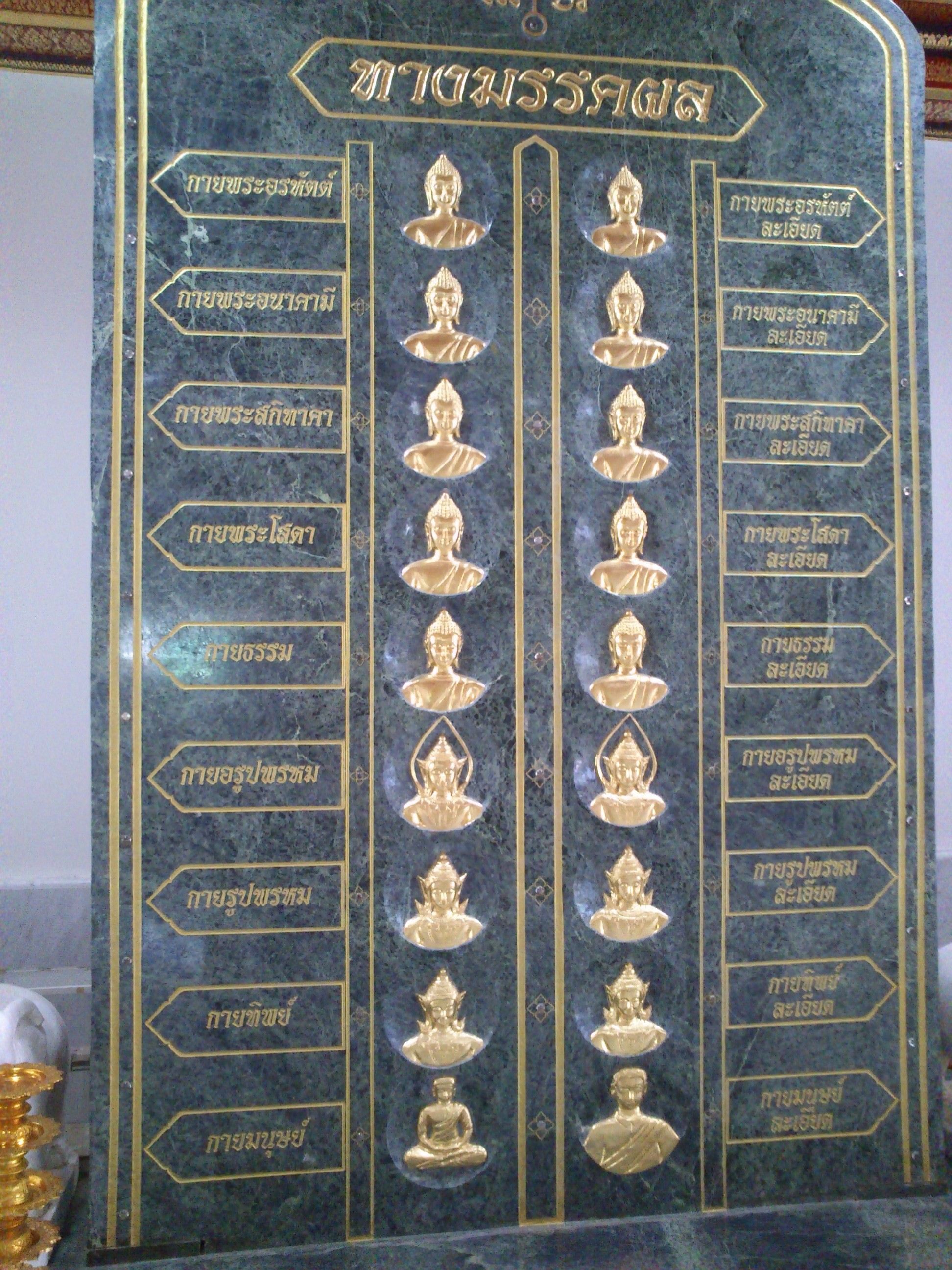 The eighteen bodies (kayas) of Vijja Dhammakaya.